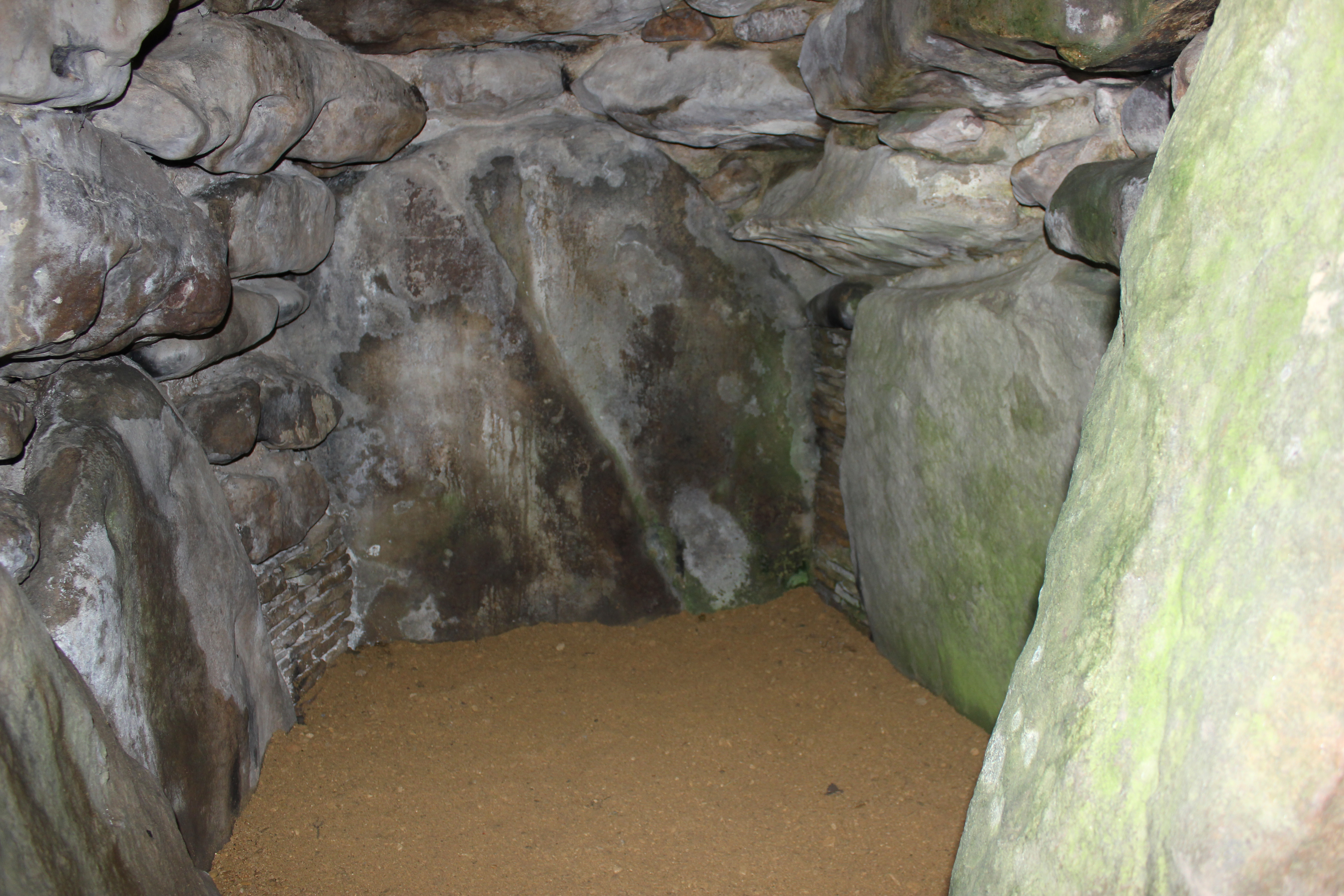 The West Kennet Long Barrow is a Neolithic tomb or barrow, situated on a prominent chalk ridge, near Silbury Hill, one-and-a-half miles south of Avebury in Wiltshire, England.